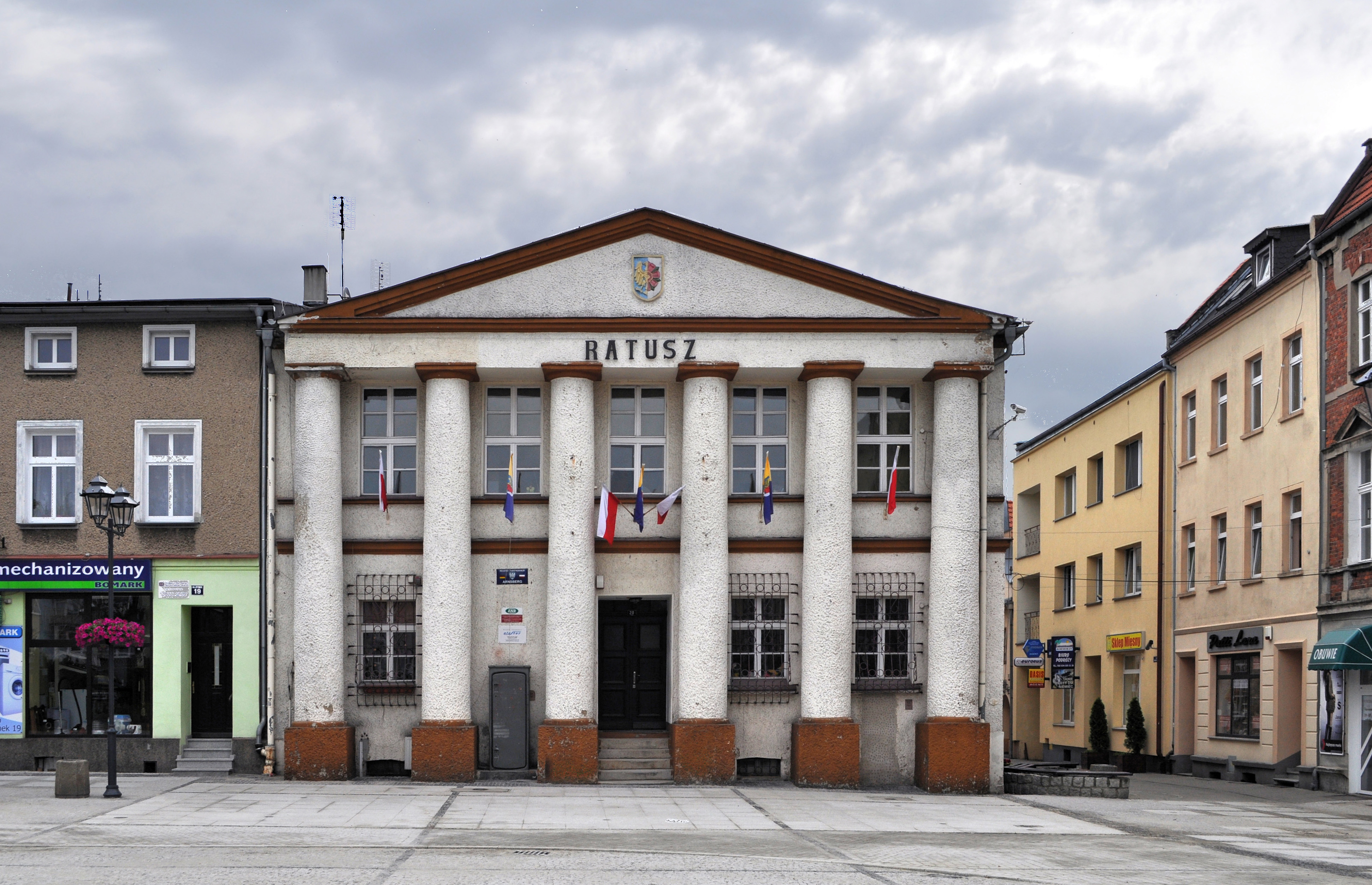 Town hall in Olesno